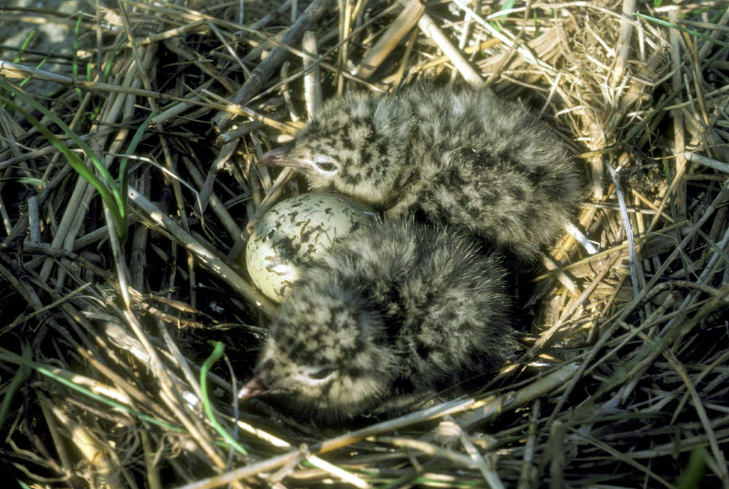 Laughing Gull Chicks in Nest (Larus atricilla), Breton National Wildlife Refuge